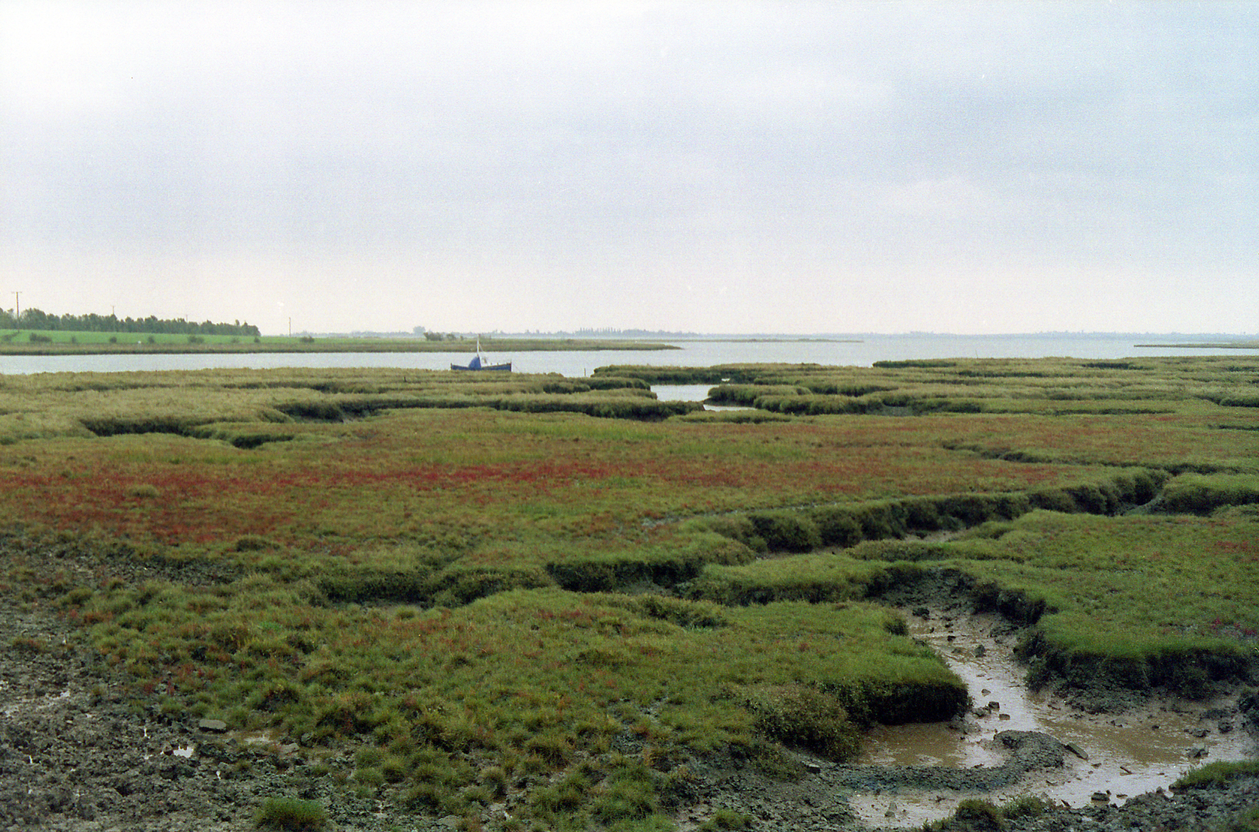 Plains where the Battle of Maldon was fought in 991, England